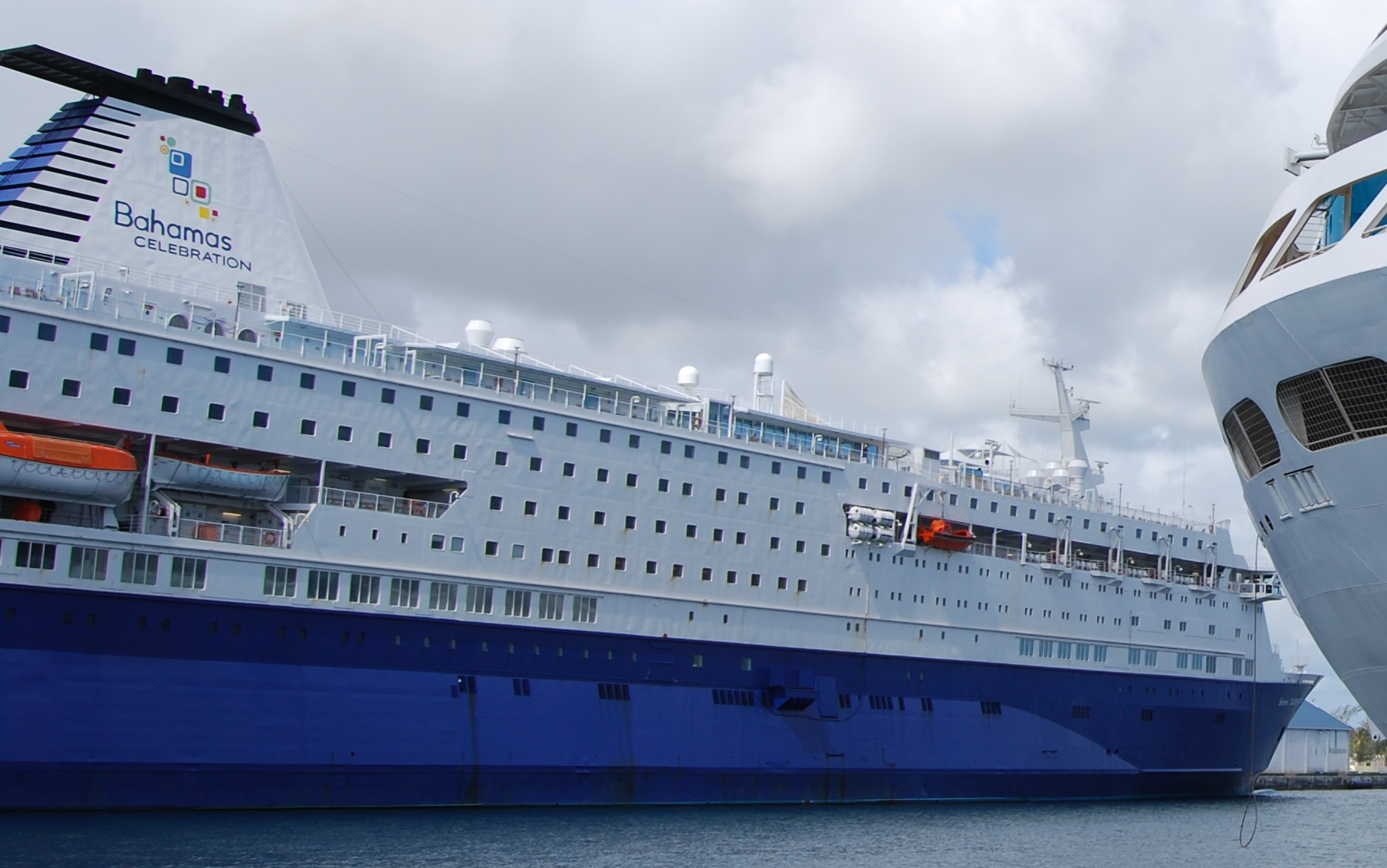 Majesty of the Seas in Nassau